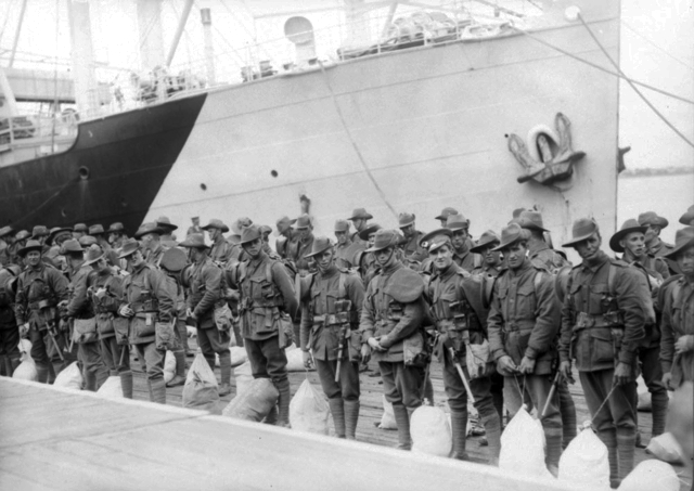 Reinforcements for the AIF's 40th Battalion at Port Melbourne, Victoria, October 1917 on their way to the Western Front, embarked on HMAT Aeneas